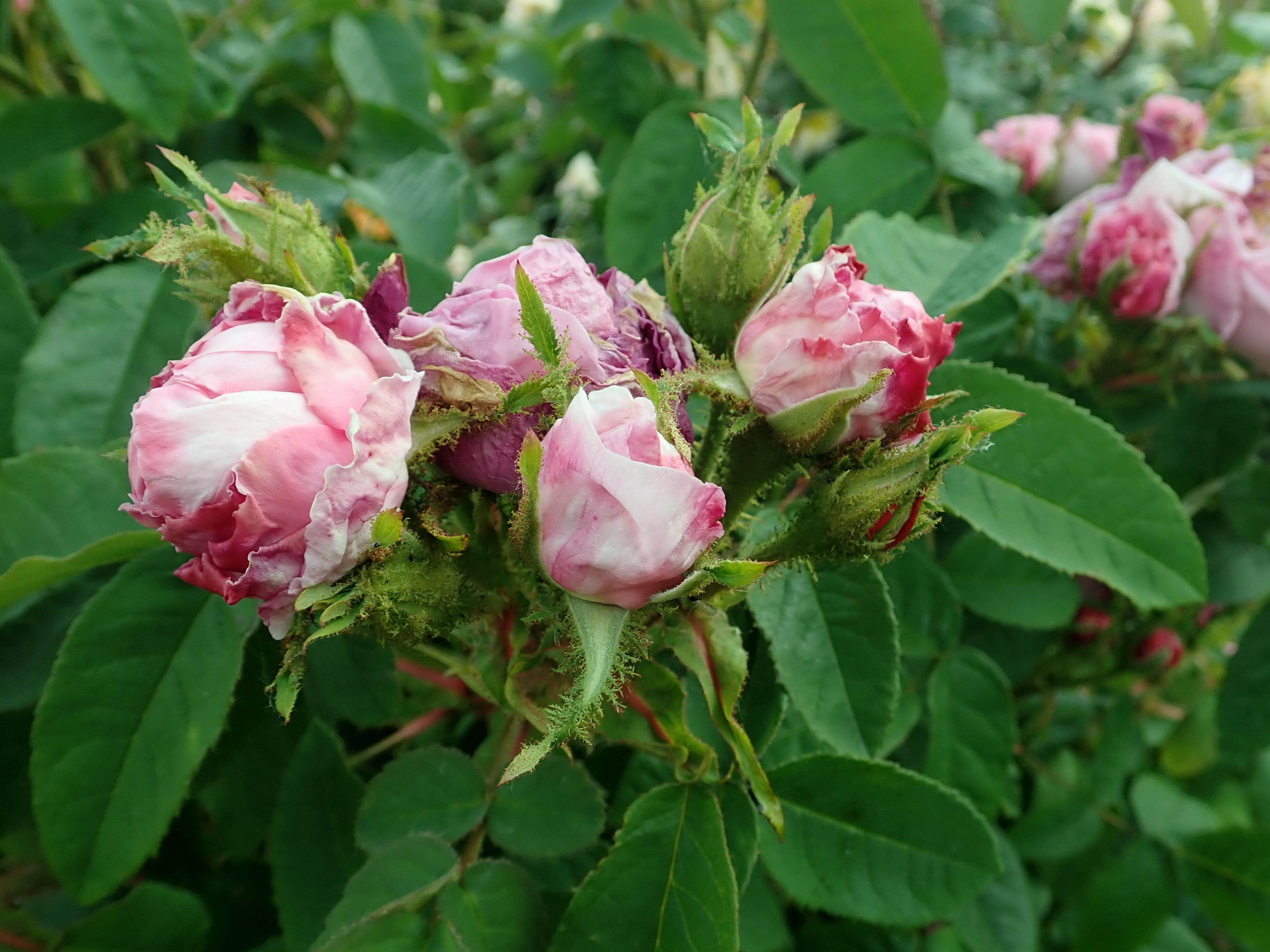 Rosa ‘Princesse de Vaudemont’ (Robert, 1854), Europa-Rosarium Sangerhausen.